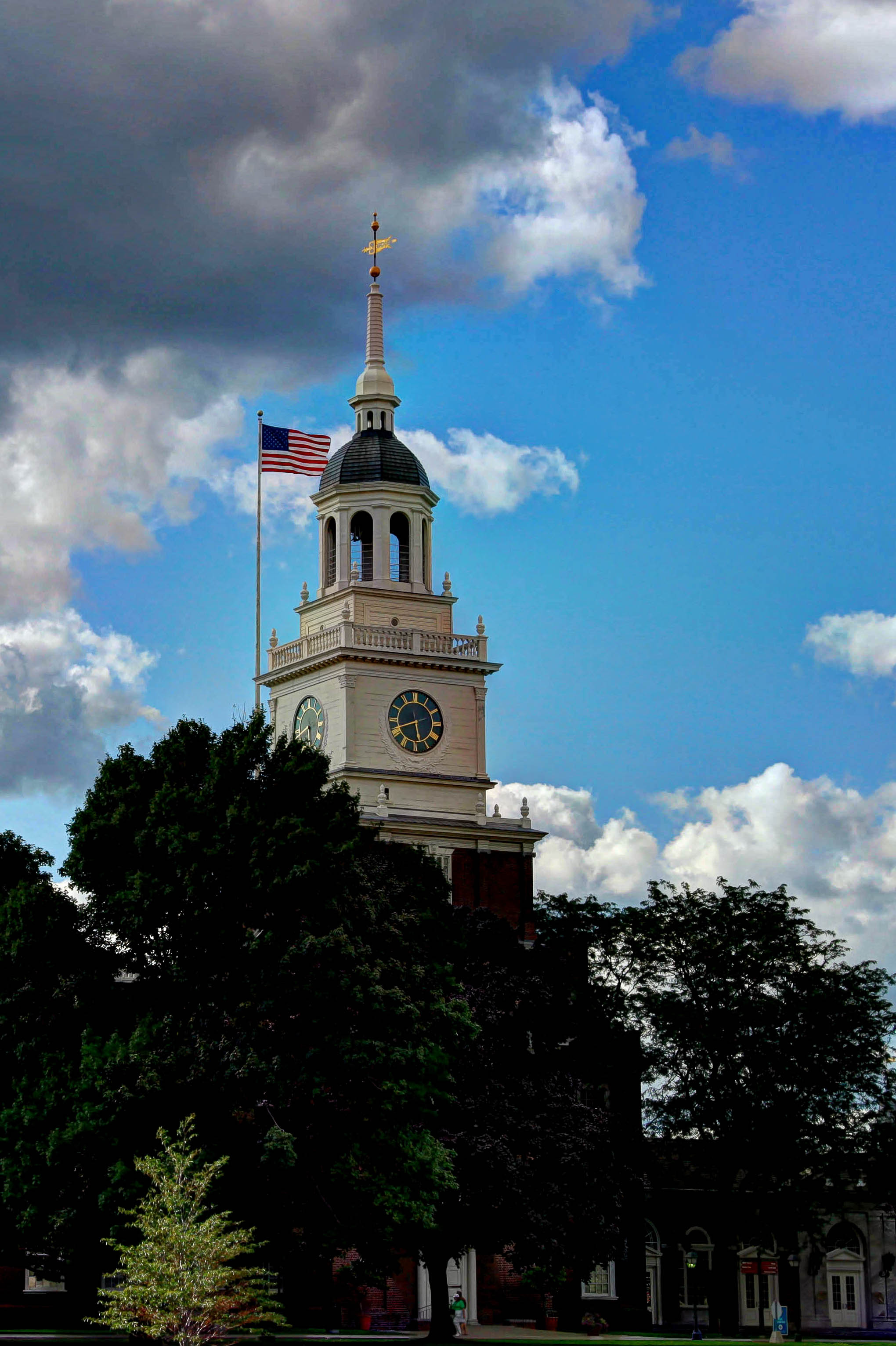 Daylight picture of The Henry Ford main tower and entrance